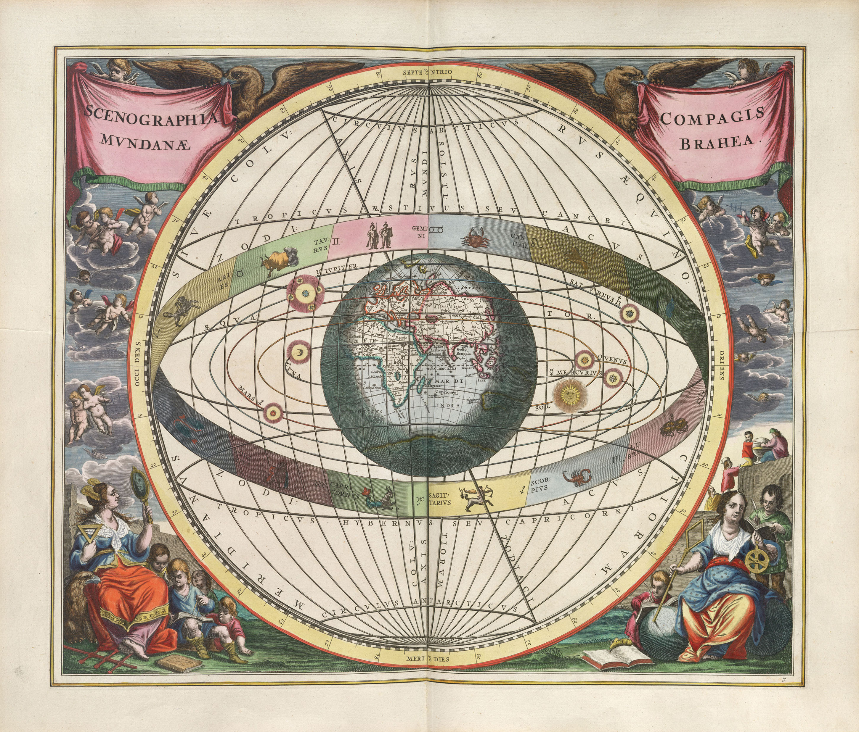 Andreas Cellarius: Harmonia macrocosmica seu atlas universalis et novus, totius universi creati cosmographiam generalem, et novam exhibens. Plate 7. SCENOGRAPHIA COMPAGIS MVNDANÆ BRAHEA - Semi-Tychonic Scenography of the world’s construction according to Paul Wittich. But named after Tycho Brahe, because it was the predecessor to Tycho's model. In this model here Mars, Jupiter and Venus are orbiting earth directly, while in the Tychonic worldview these planets are orbiting the sun, and only related to the sun also the earth.